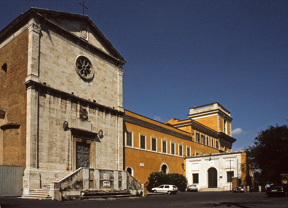 Piazza di San Pietro in Montorio and Reale Accademia di Spagna a Roma.